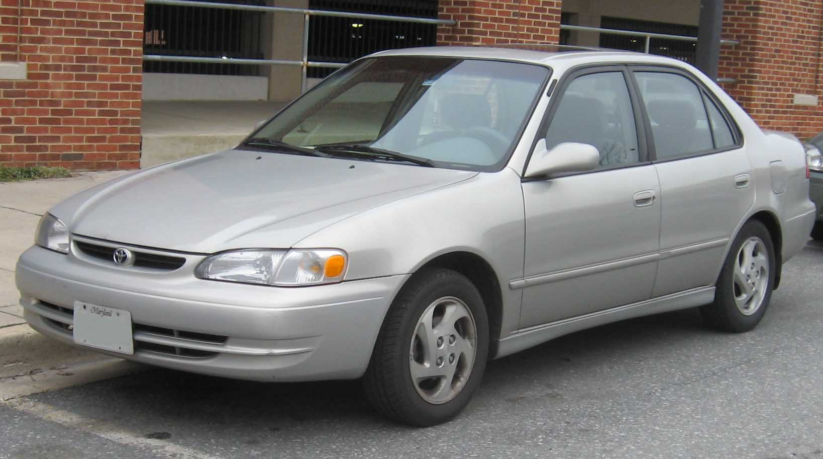 1998-2000 Toyota Corolla photographed in College Park, Maryland, USA.